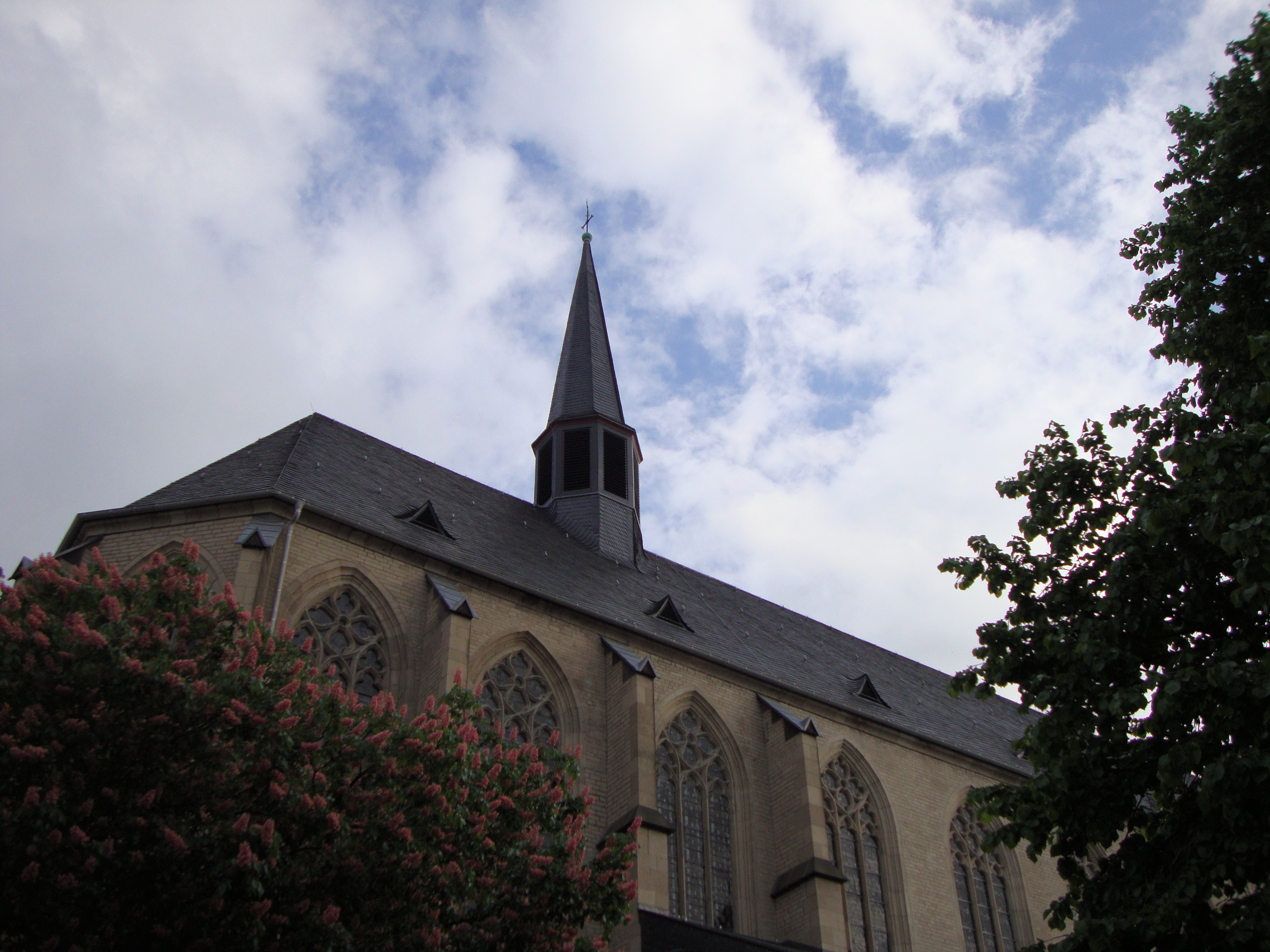 Catholic church St Remigius in Bonn